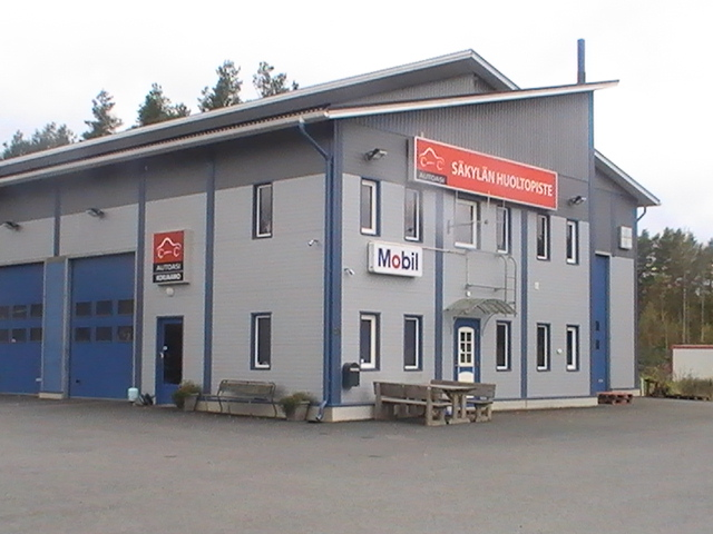 Autoasi workshop at Köörnummi, Säkylä.